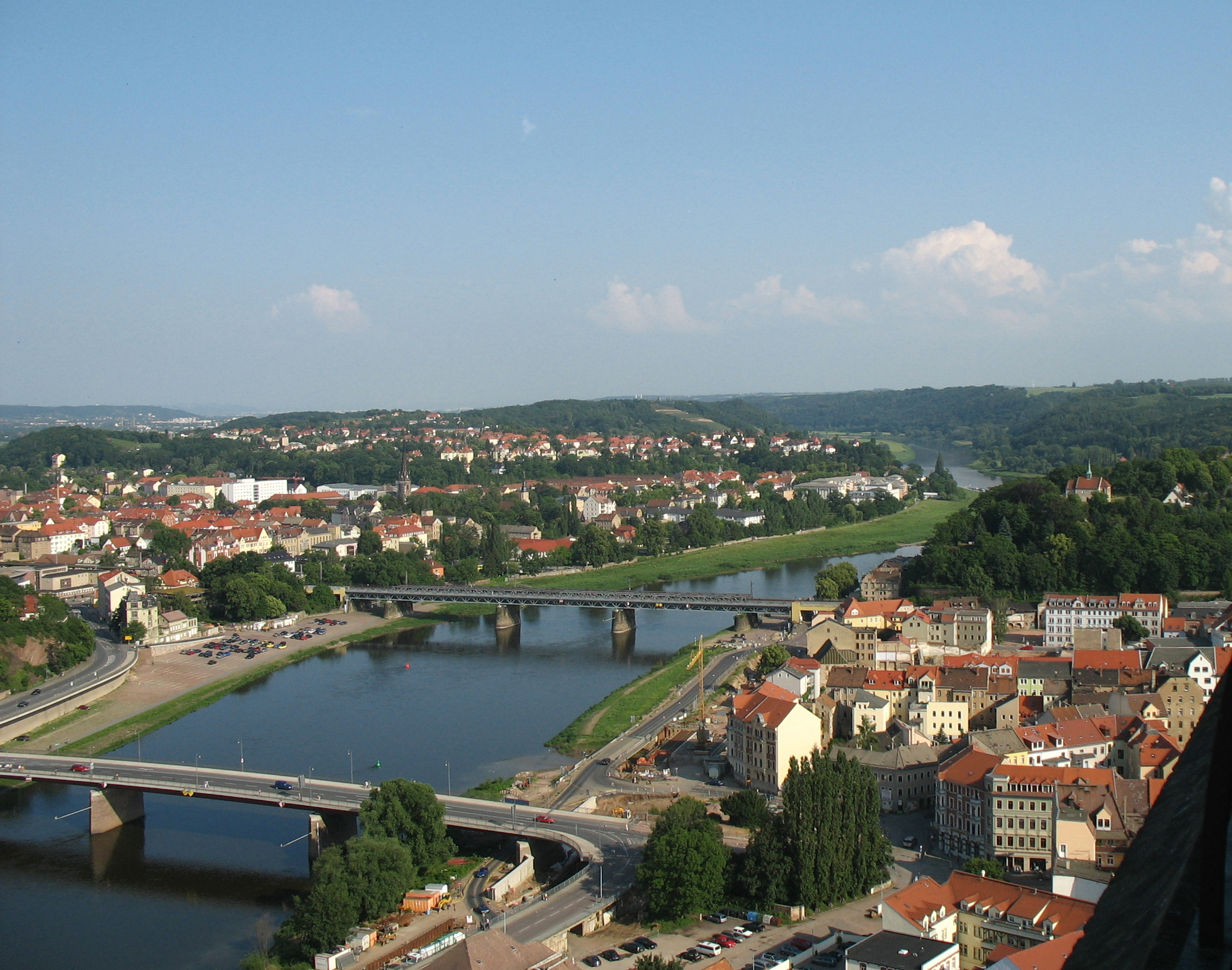 Meissen, Germany (View from Dom)